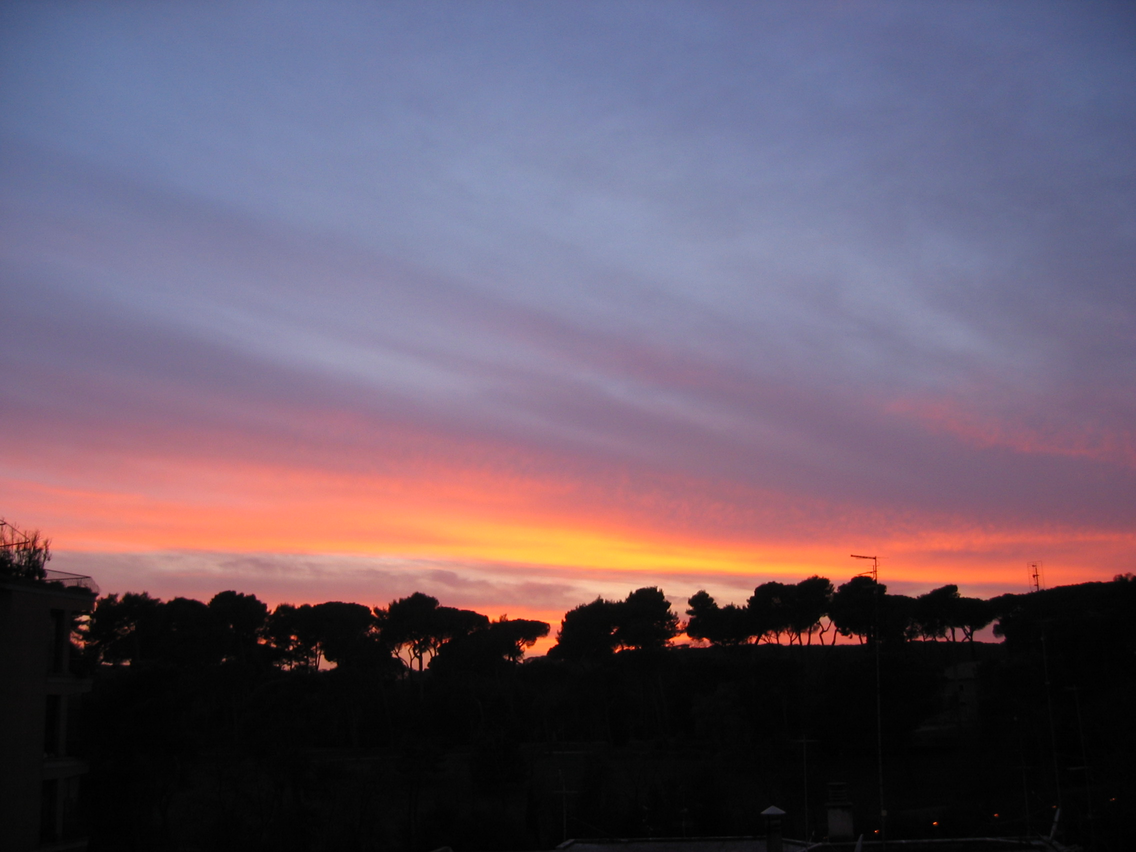 Sunset on Villa Ada, Rome (Italy).